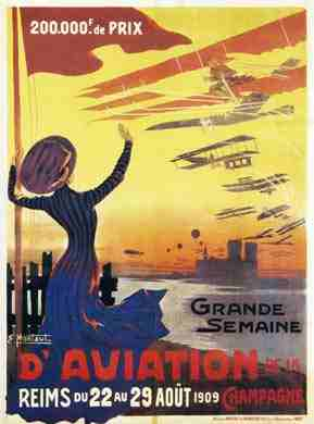 Advertising poster for the Grand Semaine d'Aviation, Reims in 1909 by Ernest Montaut (1879-1909)